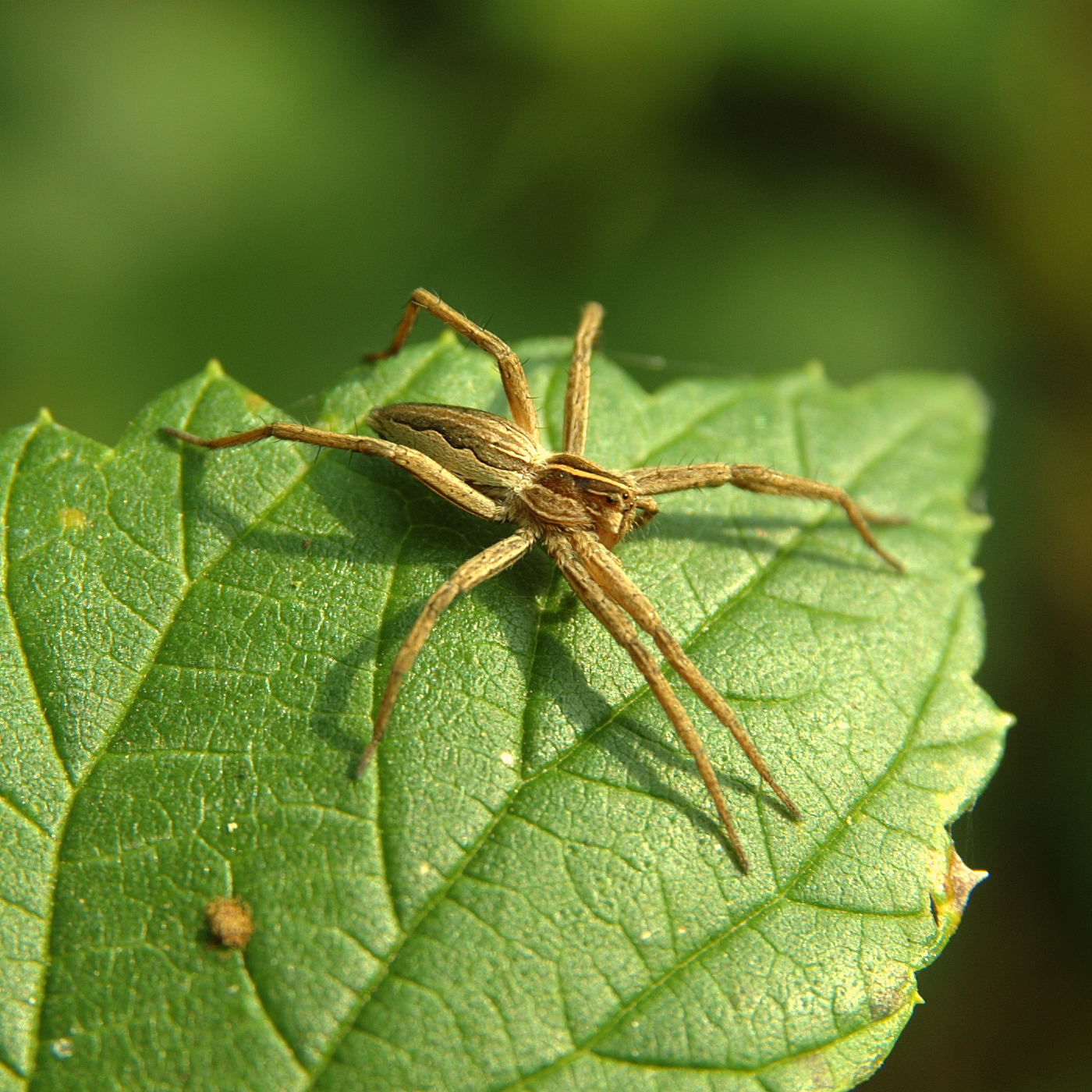 Pisaura mirabilis in Belgium (Hamois).